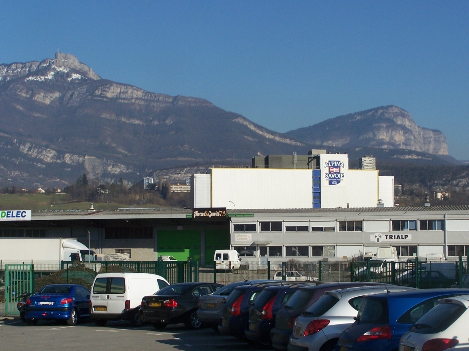 The industrial zone of Chambéry-Bissy (Savoie, France).